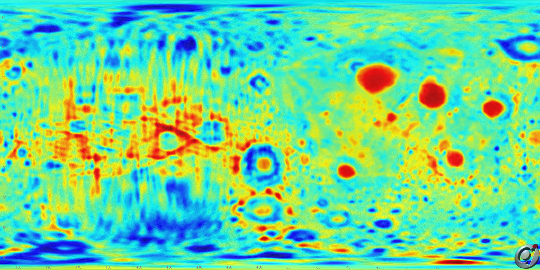 Image courtesy of michael.volle and a.i. solutions, Inc. This image was generated using the FreeFlyer software package.